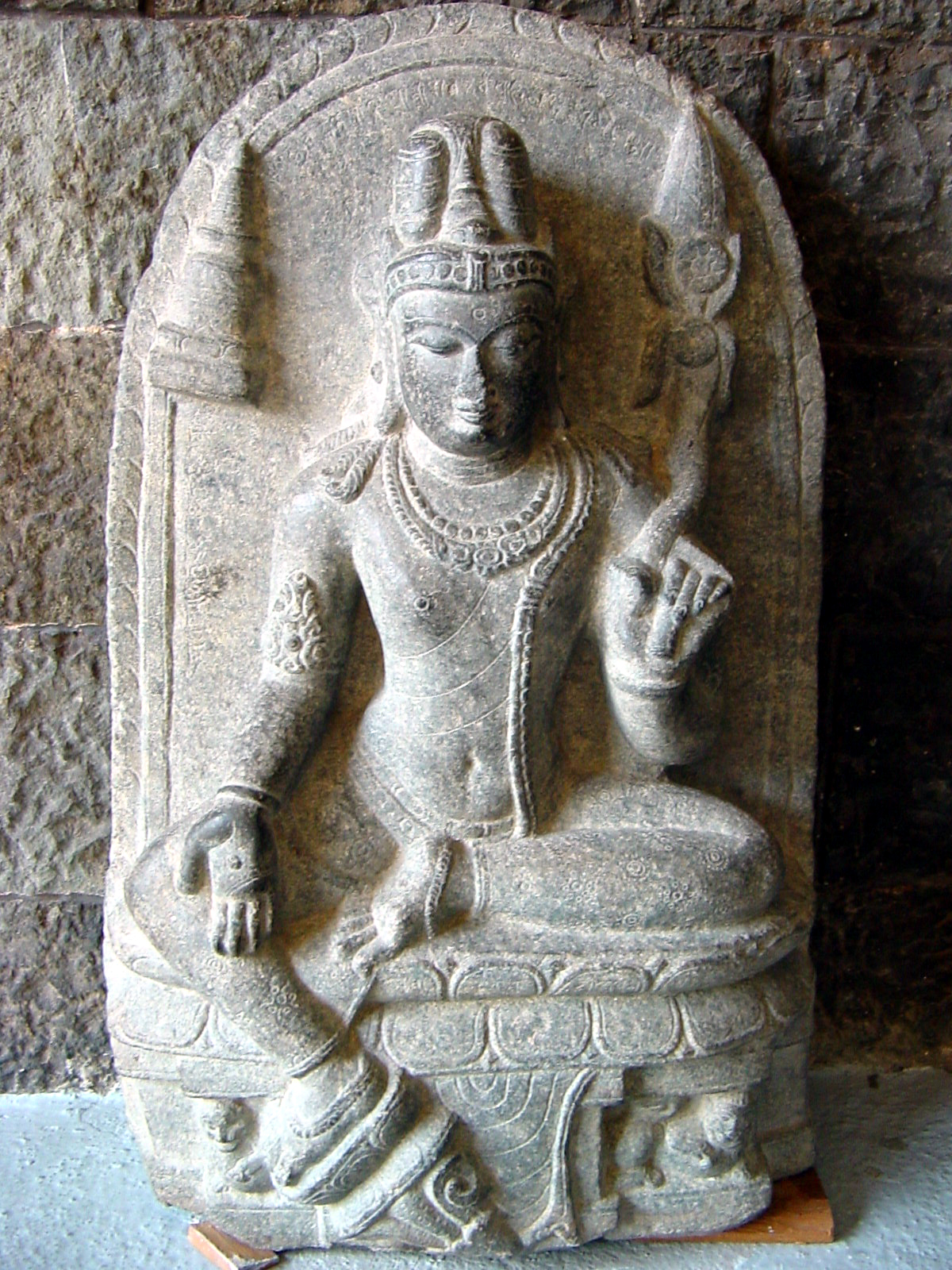 Bodhisattva. Pala period, 12th century Prince of Wales Museum, Bombay The bodhisattva sits in lalitasana (Royal Ease) on a lotus pedestal. His extended right leg rests on a lotus footstool. The bodhisattva's left hand holds the stem of a decorated, unopened lotus bud, while his right hand is extended in the varada mudra of giving. The conical object above his right shoulder is another lotus bud whose stem is missing.